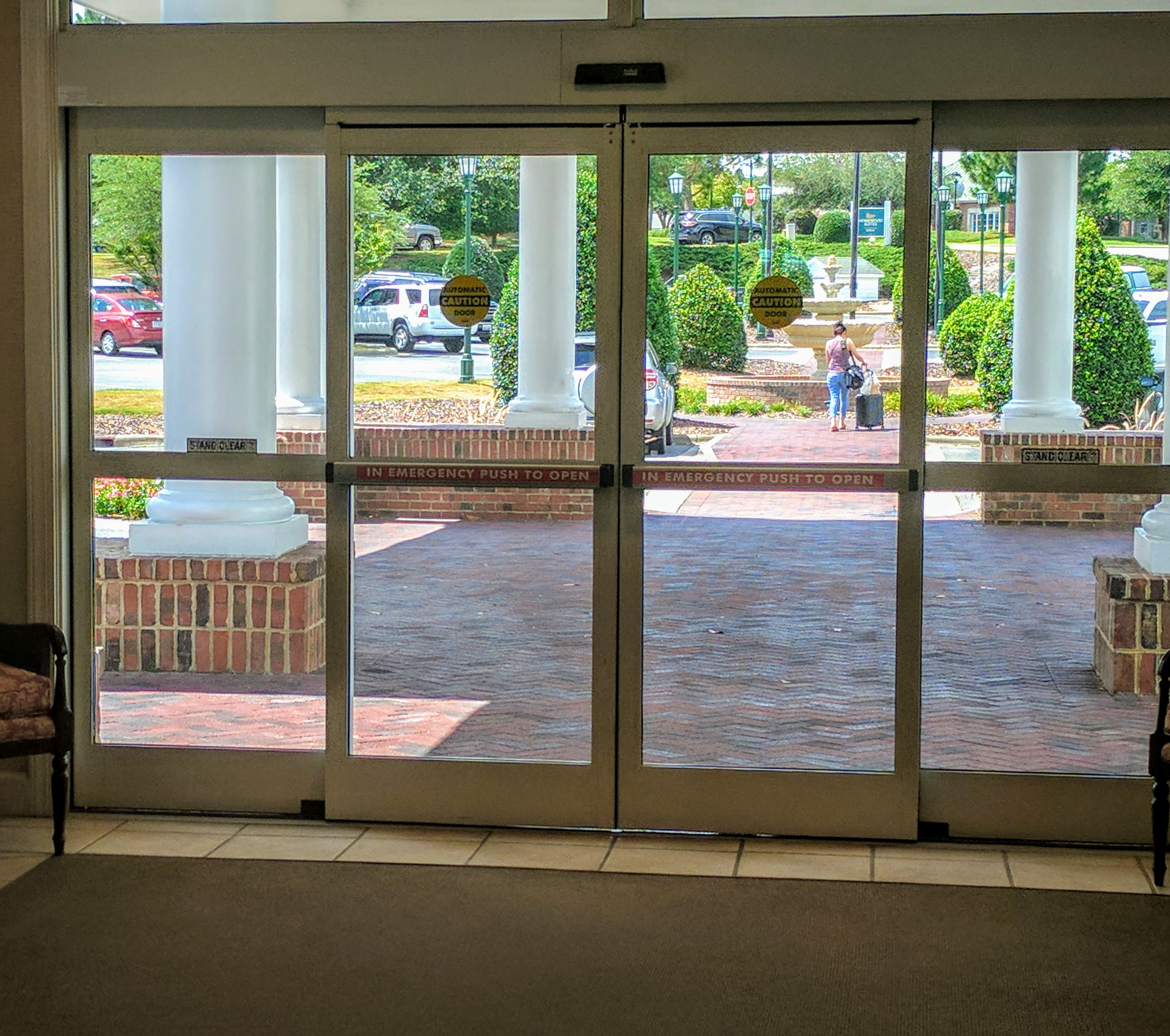 An image of automatic doors in a hotel fitted with back up crash bars for emergency exit operation.